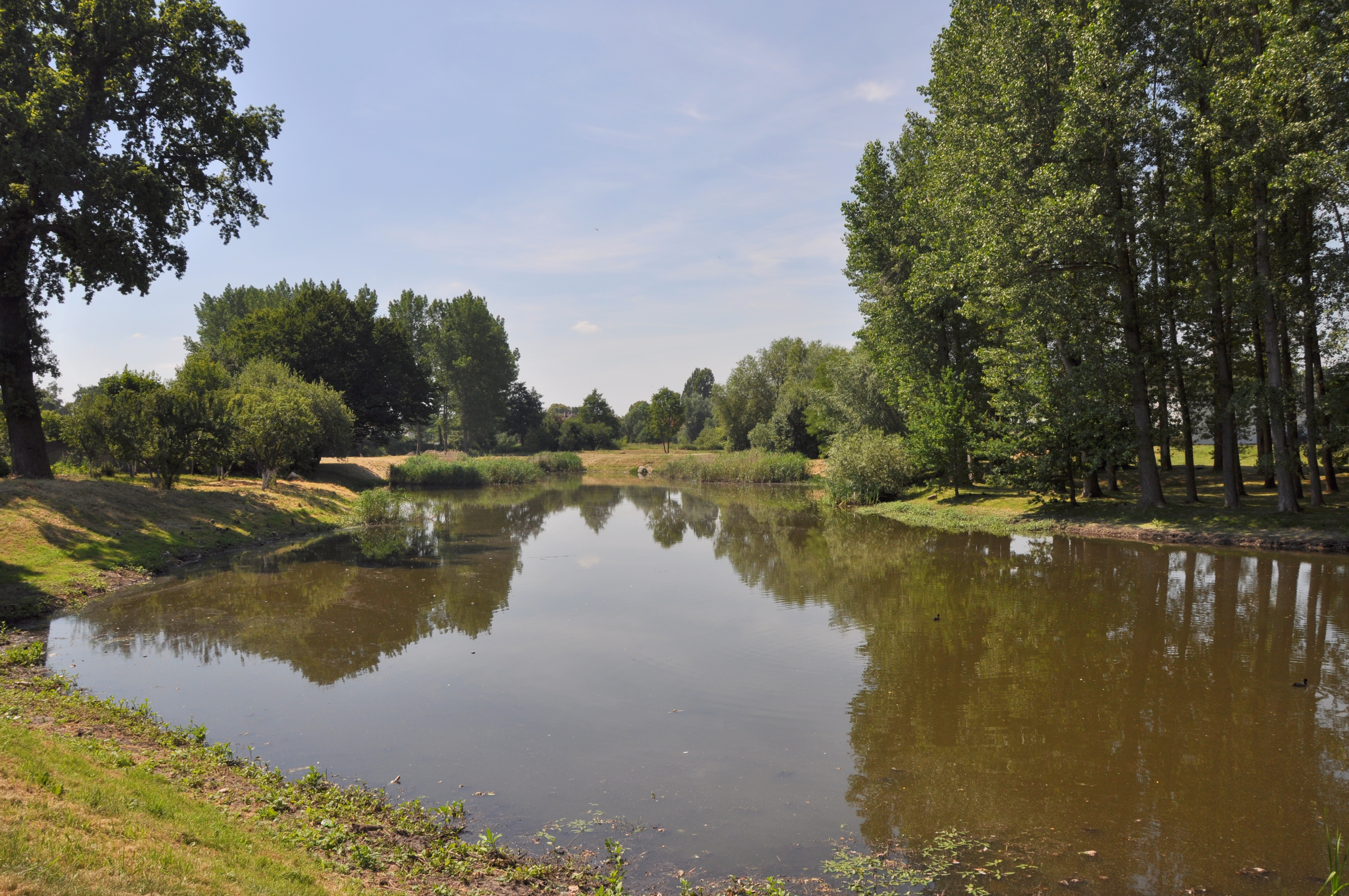 St. George's Pond in Trzebiatów